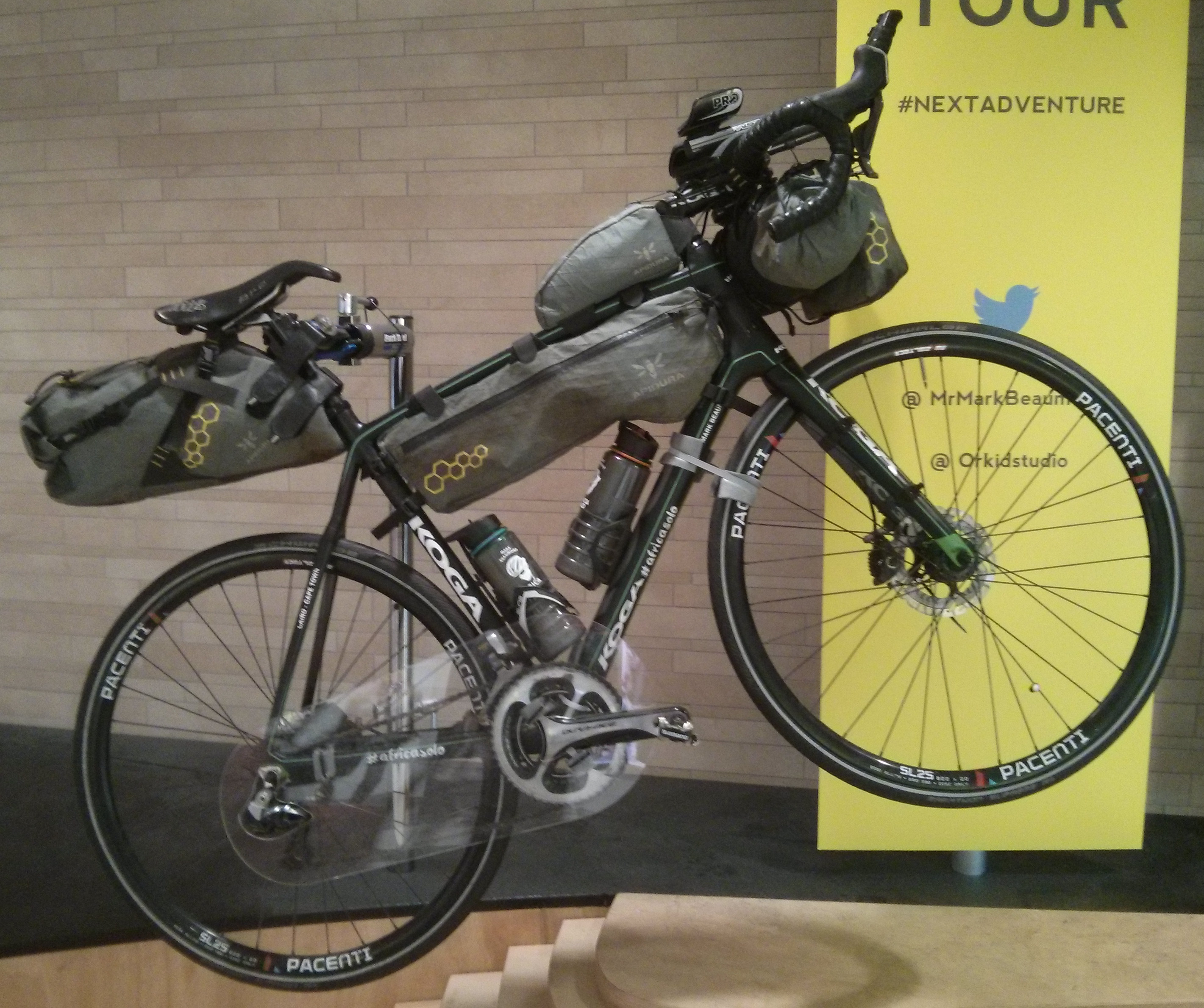 Koga Solacio bicycle on display at Edinburgh Airport. Bicycle was used by Mark Beaumont to set records cycling from Cairo to Cape Town across Africa and completing the North Coast 500 around the Scottish Highlands.